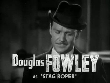 Douglas Fowley in 20 Mule Team, by Richard Thorpe (1940)